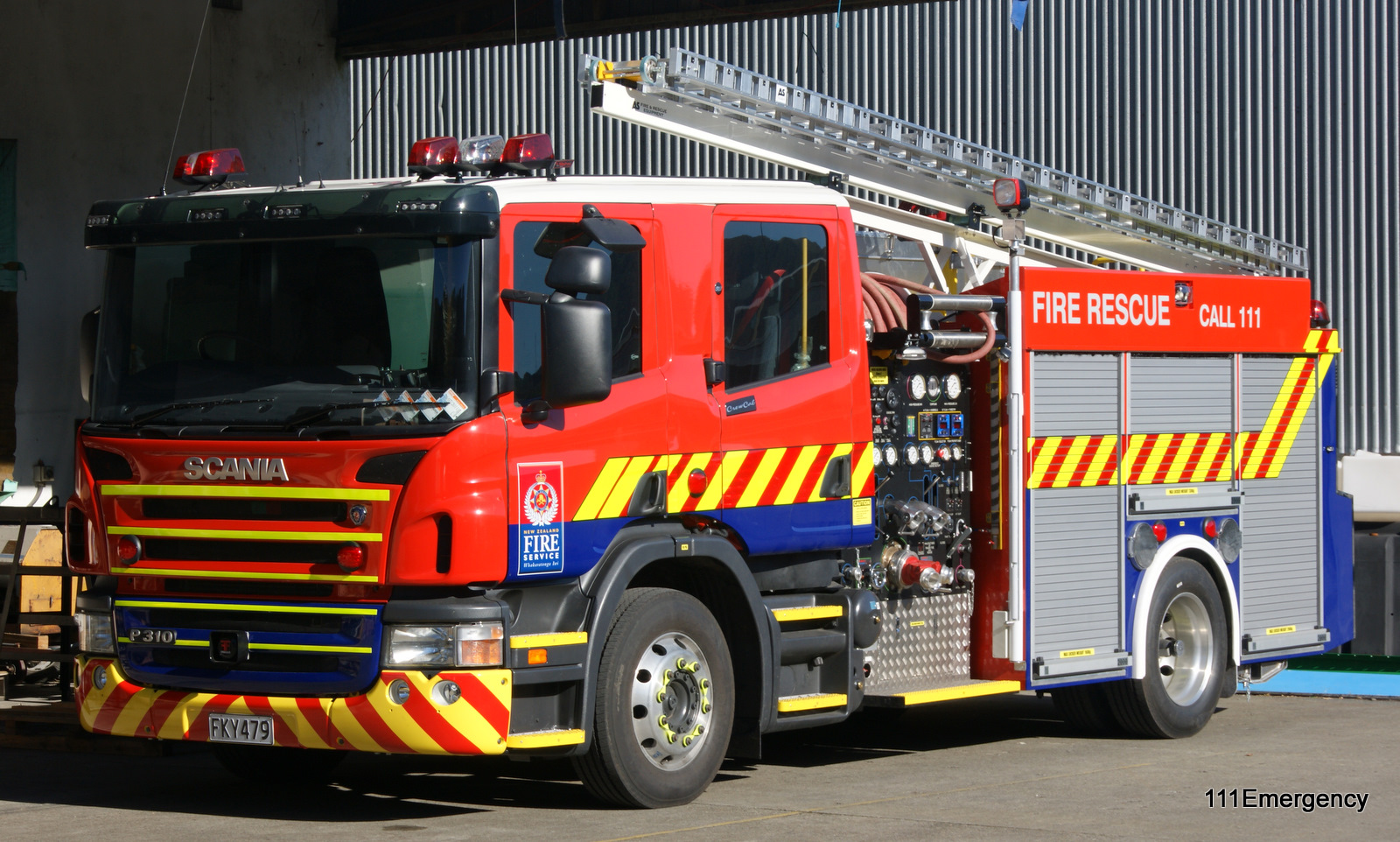 Hastings 561 - Type 3 Scania Fire Appliance